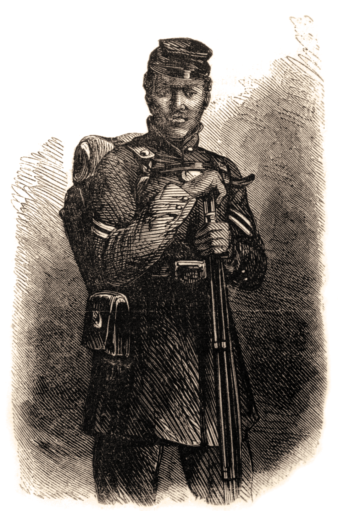 Civil War engraving of Gordon (slave) in uniform.